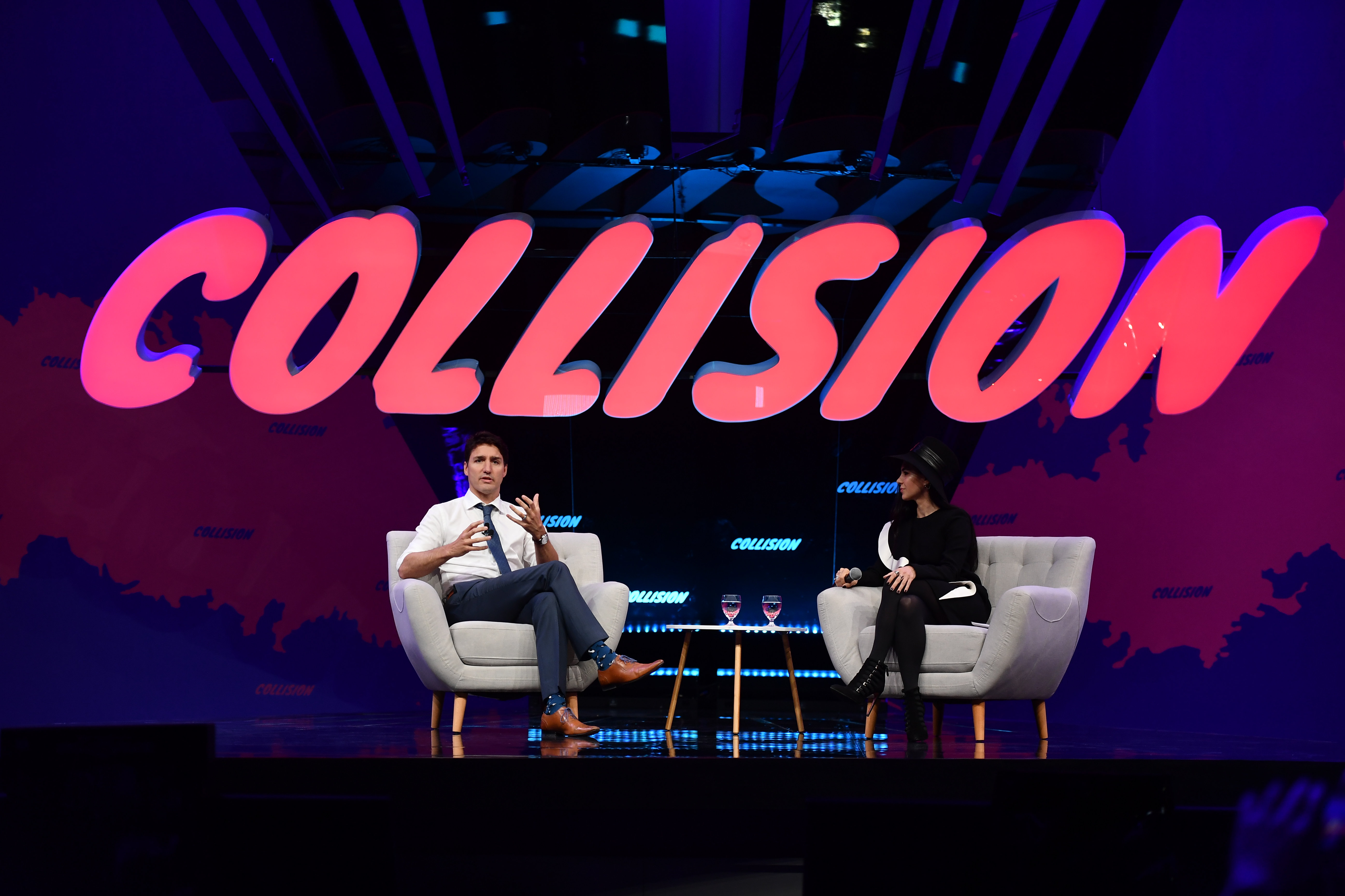 Prime Minister Justin Trudeau being interviewed by Shahrzad Rafati, Founder & CEO, BroadbandTV, on centre stage during the opening night of Collision 2019 at Enercare Center in Toronto, Canada.